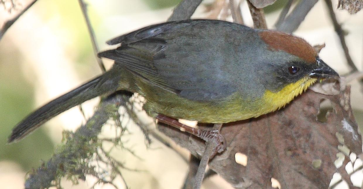 Rufous-capped Brush-finch